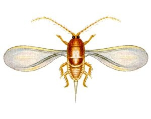 Rose scale, male. Aulacaspis rosae (Hemiptera: Diaspididae)